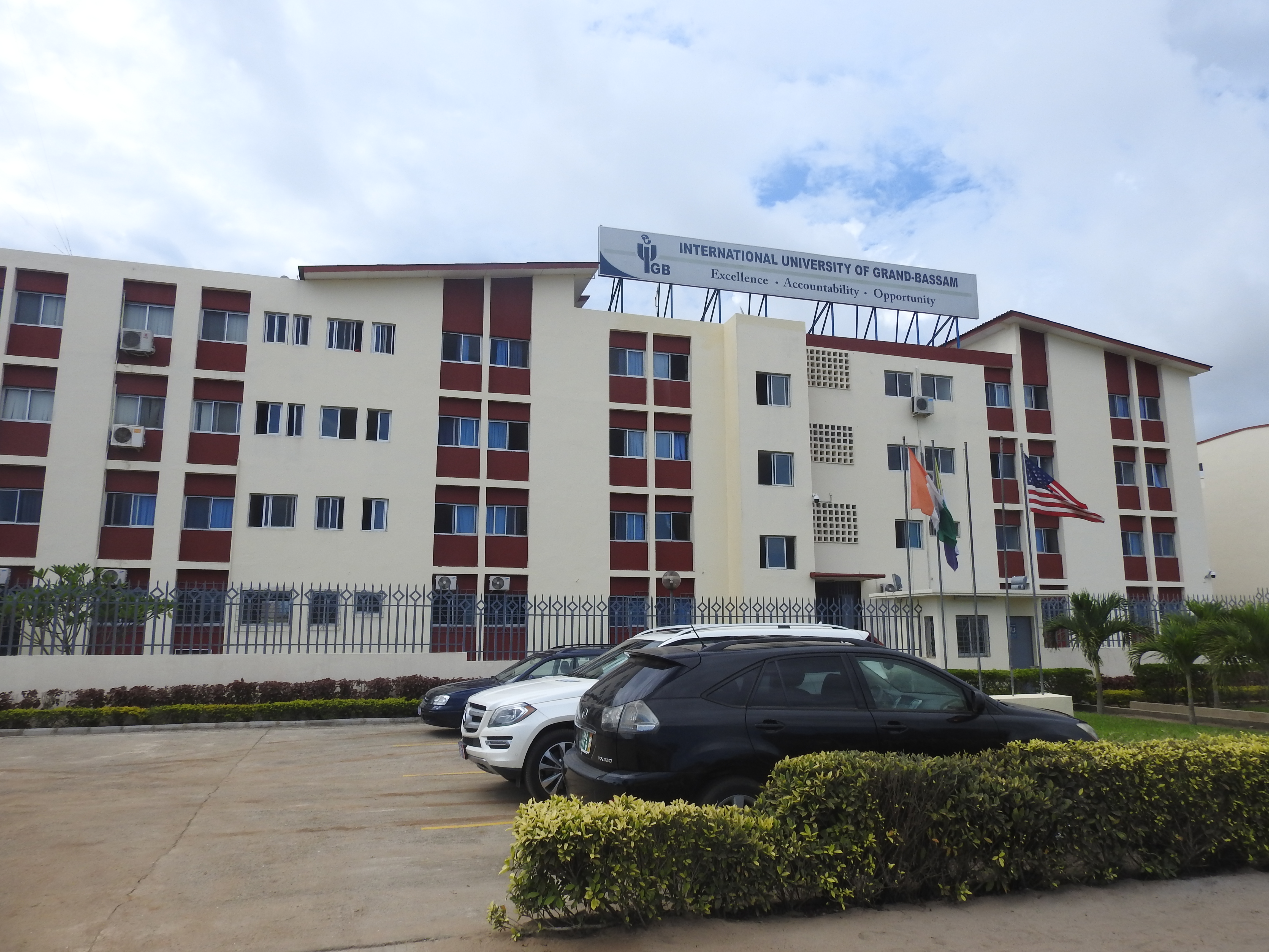 Front entrance of the International University of Grand-Bassam main campus.